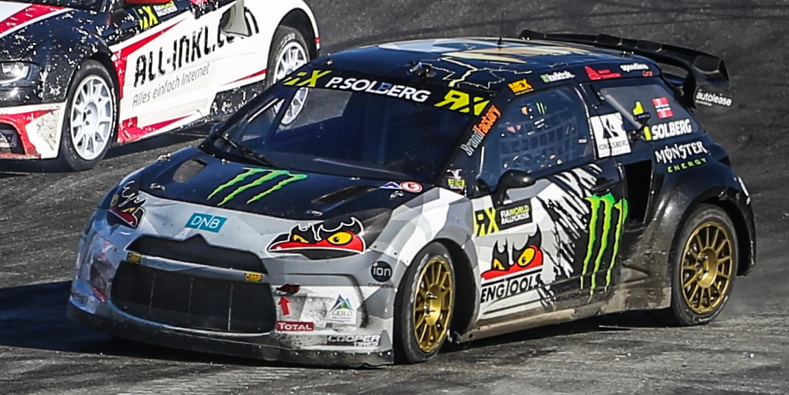 Petter Solberg in his Citroën DS3 Supercar. Round 8 of the 2015 FIA World Rallycross Championship at Lånkebanen, Norway.